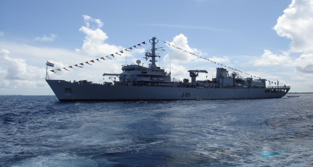 Indian Hydrographic Survey Ship, 'INS Darshak' arrived in Seychelles on 5 November 2015 to collect hydrographic information that will be used to prepare navigational charts, which is expected to benefit the island nation's Coast Guard and mariners in general. The survey area in the Seychelles Exclusive Economic Zone earmarked in red.